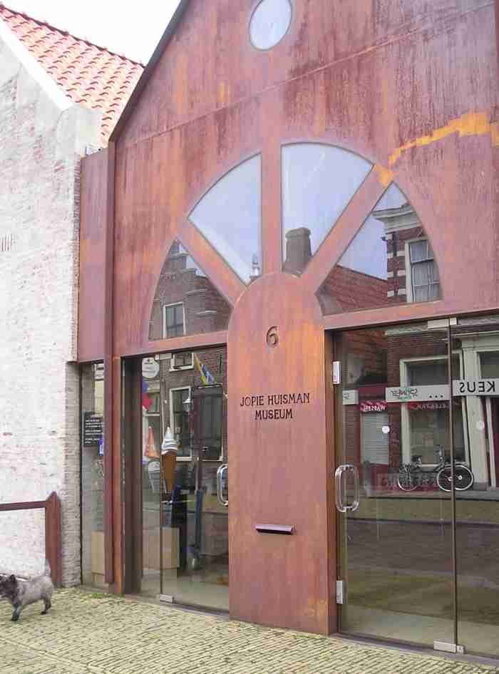 foto corten staal toepassing